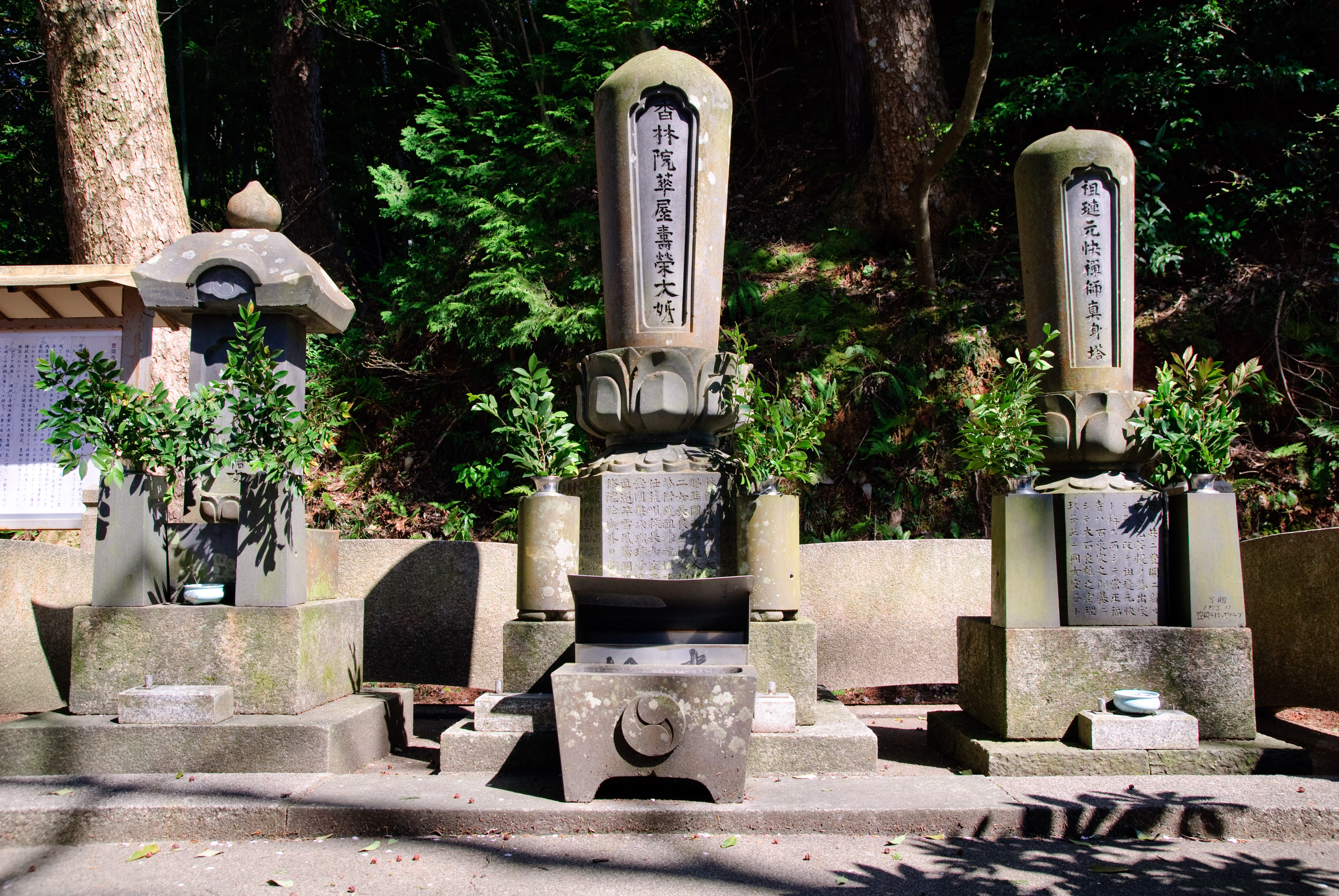 Oishi Riku in Toyooka, Hyogo Prefecture, Japan.